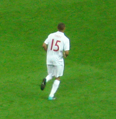 Gibbs debut for England National Football team